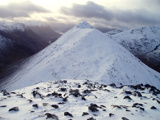 Buachaille Etive Beag: Stob Dubh from Stob Coire Raineach. Loch Etive can be seen beyond. Taken by Blisco, 2 January 2007